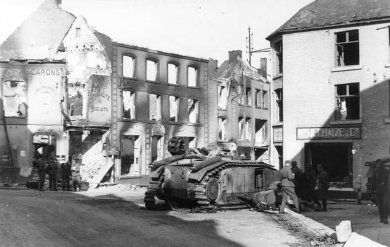 A french "Char B1" tank of the 37th battalion, after it has been destroyed by its own crew on May the 16th 1940, in Beaumont, Belgium